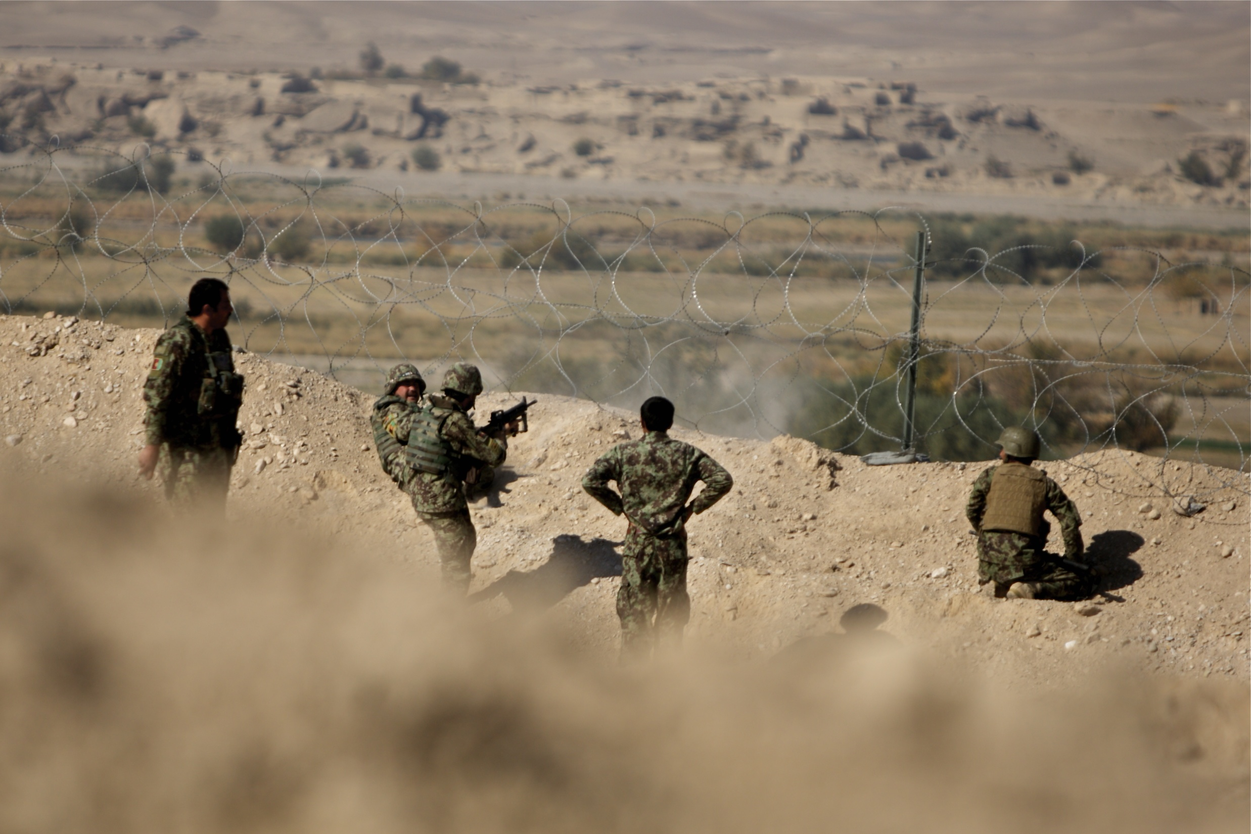 Afghan soldiers from 215 Corps take aim at Taliban insurgents. Since taking over Combat Outpost Nolay in Helmand, Afghanistan from US Marines, Afghan troops have come under daily attack.